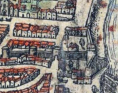 Enceinte de Philippe Auguste (detail quartier Saint-Paul : poterne Barré) on the plan of Braun and Hogenberg (c.1530, published in 1572, edition of 1593).